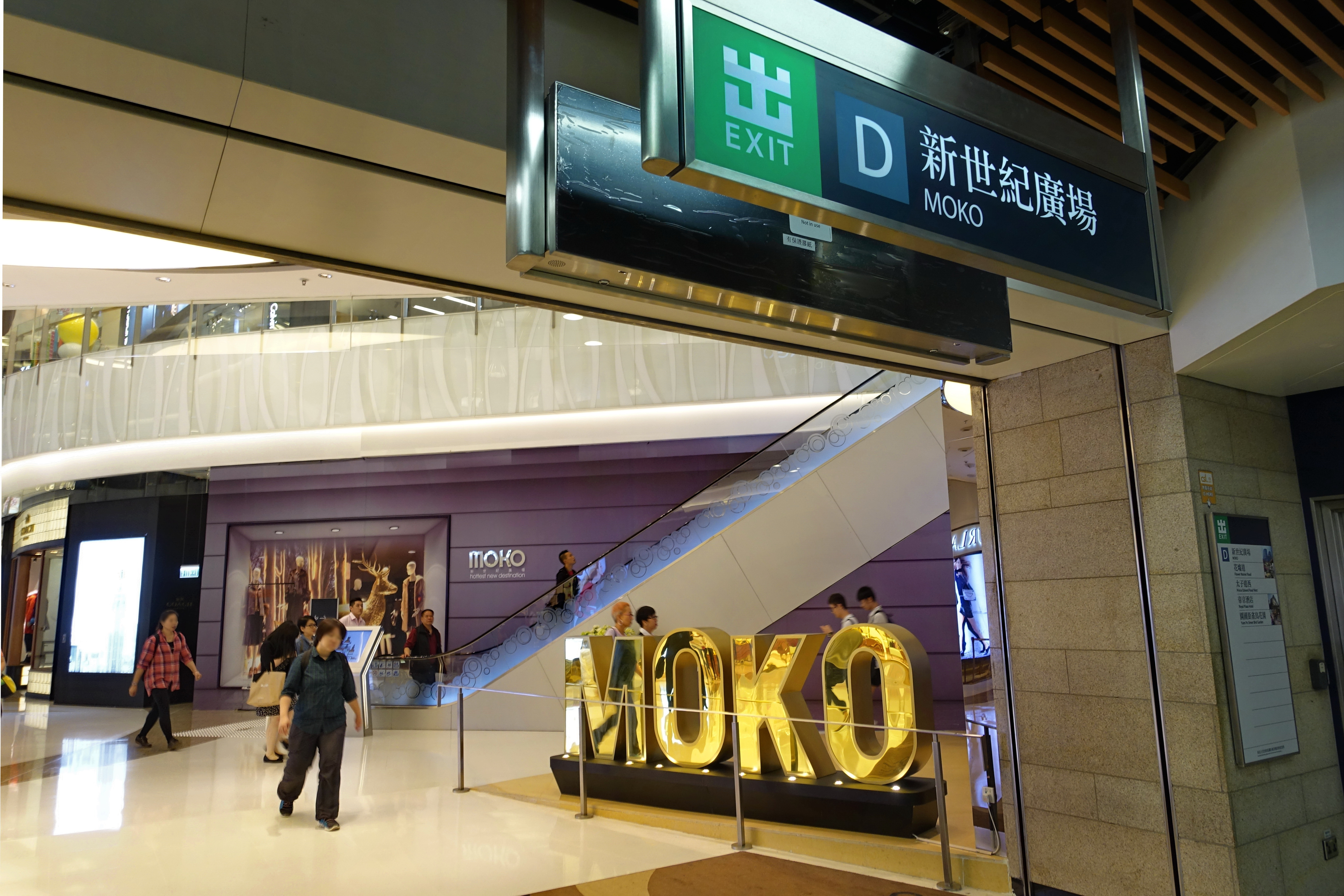 Mong Kok East Station, Exit D, MOKO, Hong Kong.